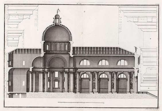 Chiesa del Redentore in Venice by Andrea Palladio. Drawing by Ottavio Bertotti Scamozzi, 1783.